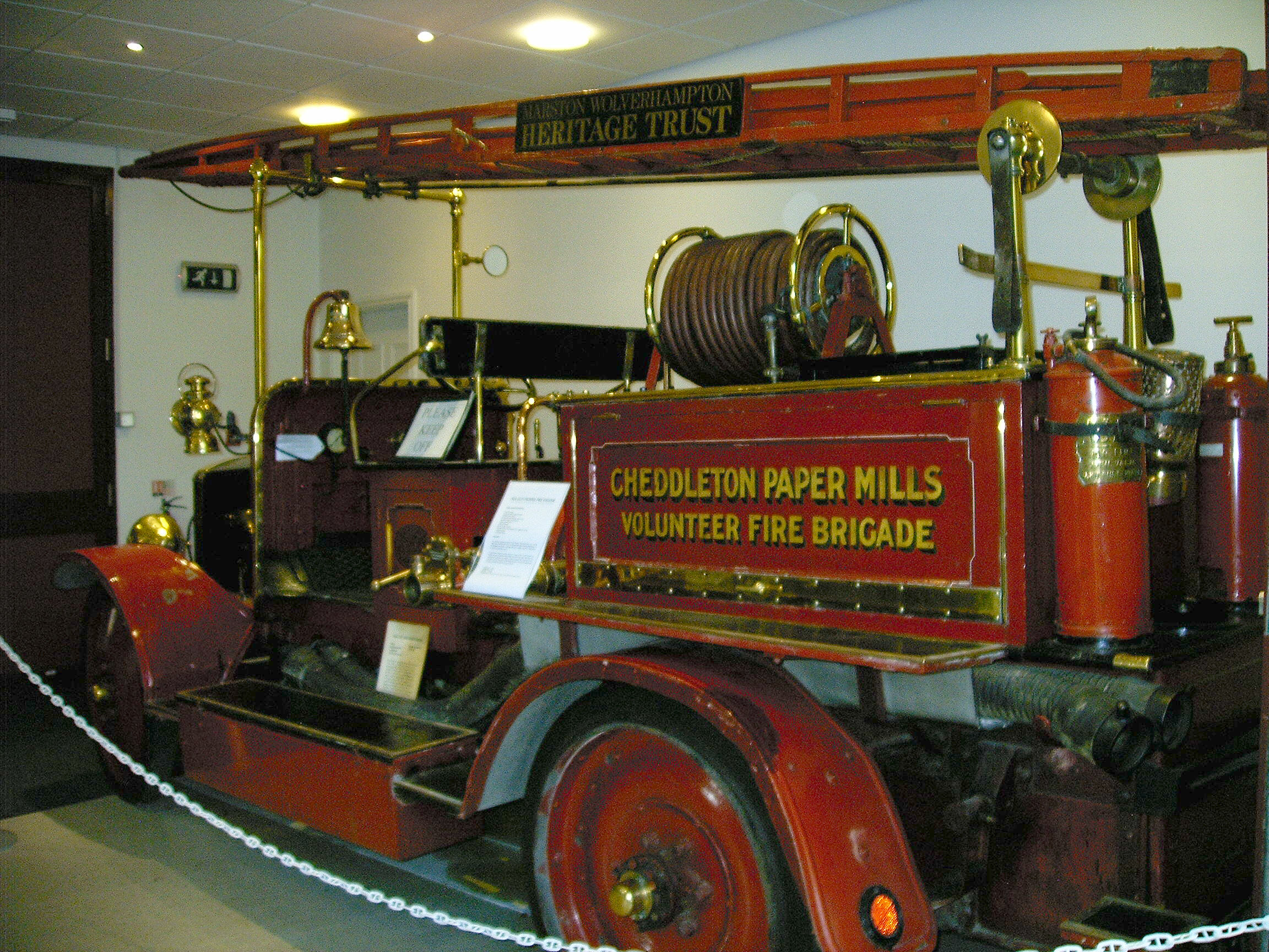 Fire engine on display in the Black Country Living Museum. The Museum displays vehicles built in the Black Country. This engine was used at Cheddleton, Staffordshire.